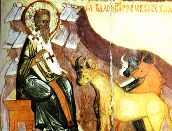 Saint Blaise. Russian icon (fragment). 15th century.